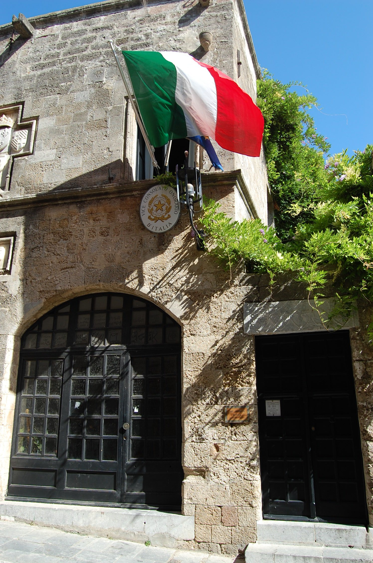 Honorary Vice Consulate of Italy, Rhodes, Greece